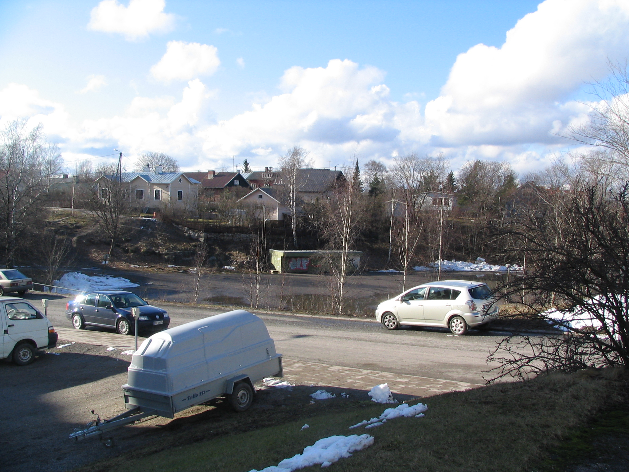 Some small houses and football field in Pohjola, Turku, Finland.